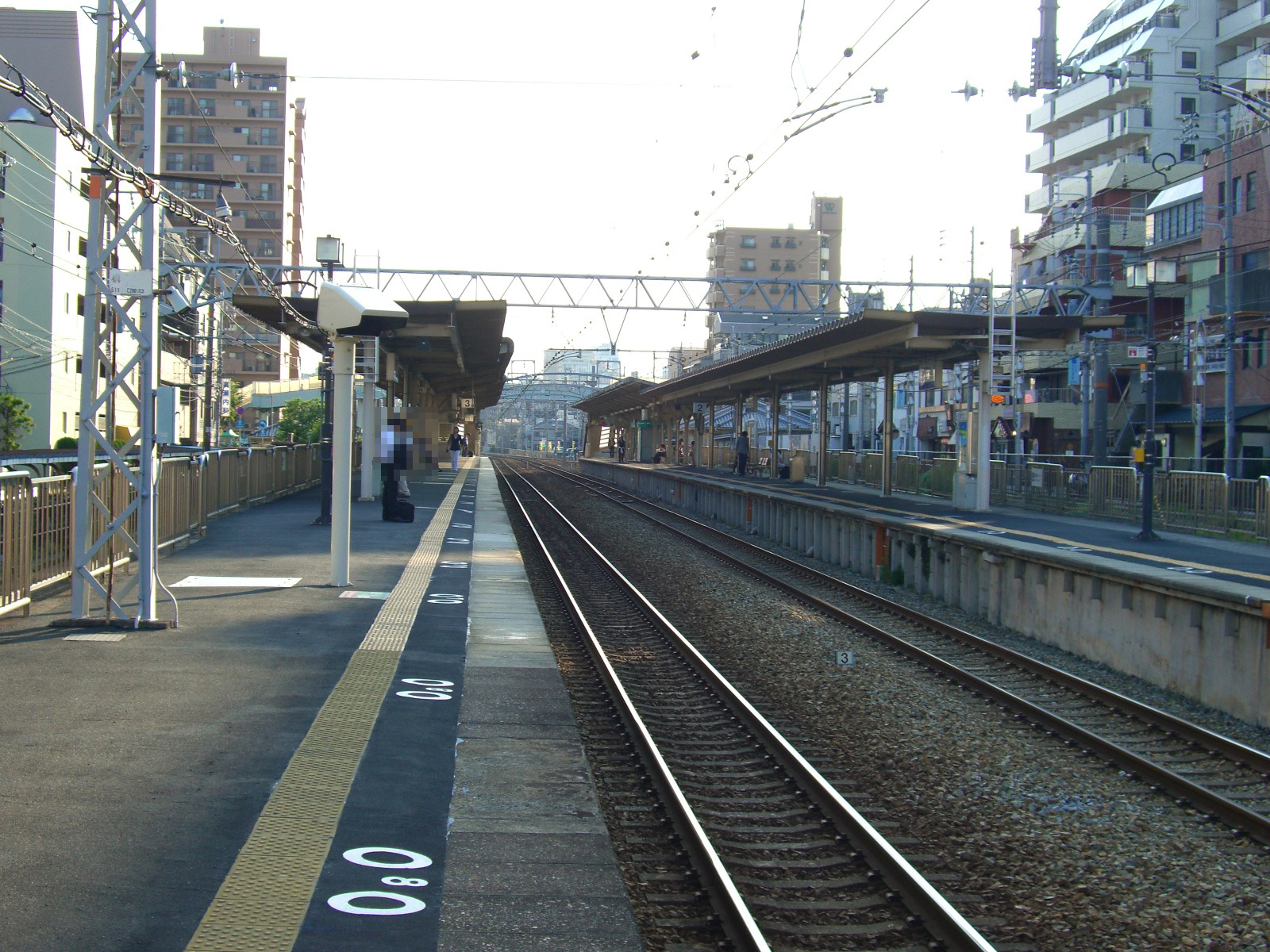 West Japan Railway Tōkaidō Main Line（JR Kōbe Line） Settsu-Motoyama Station Platform